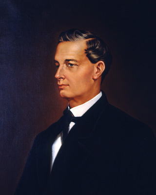 Albert Clinton Horton (1798—1865) — Texan politician, first Lieutenant Governor of Texas.